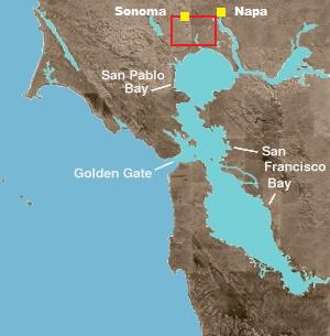 The Carneros AVA in relation to San Pablo Bay.